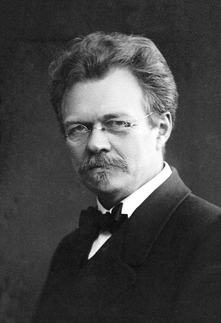 Photograph of the Finnish architect Vilho Penttilä (1868–1918).